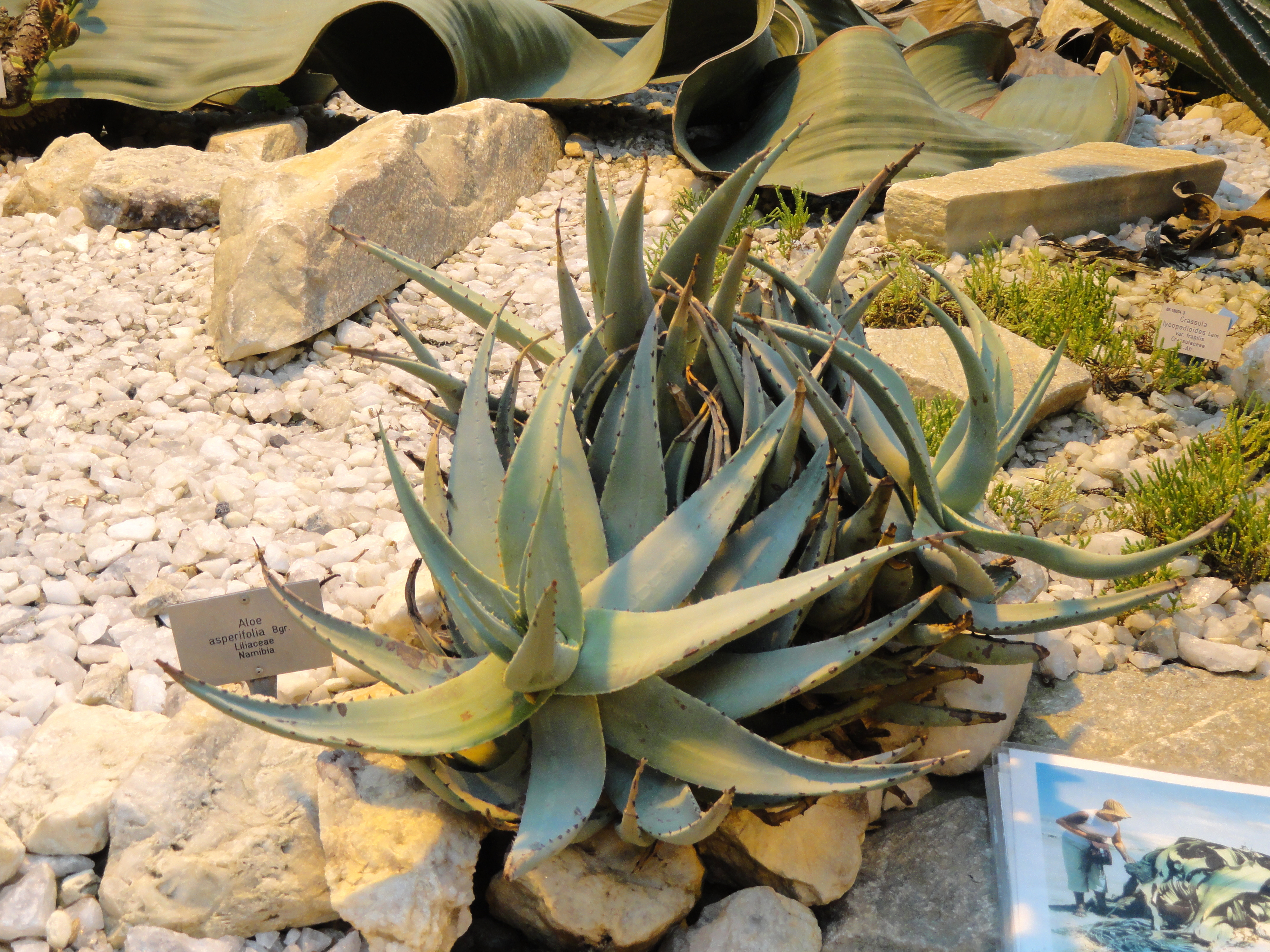 Botanical specimen in the Palmengarten, Frankfurt am Main, Germany.